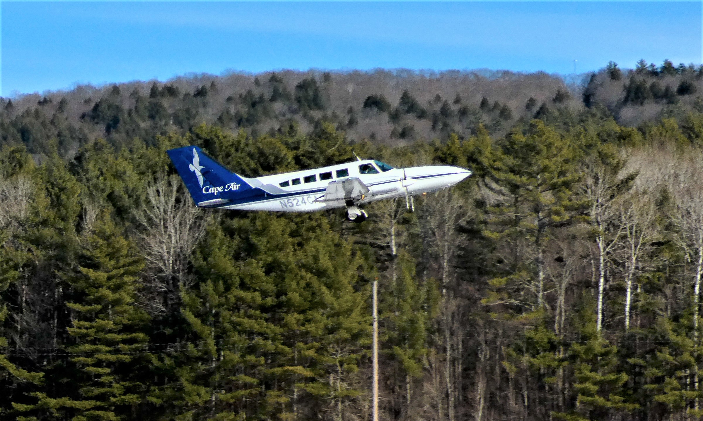 Cape Air, as of 2020 operates the largest fleet of Cessna 402 airliners in the world. This is one of them taking off from Lebanon, NH, USA.